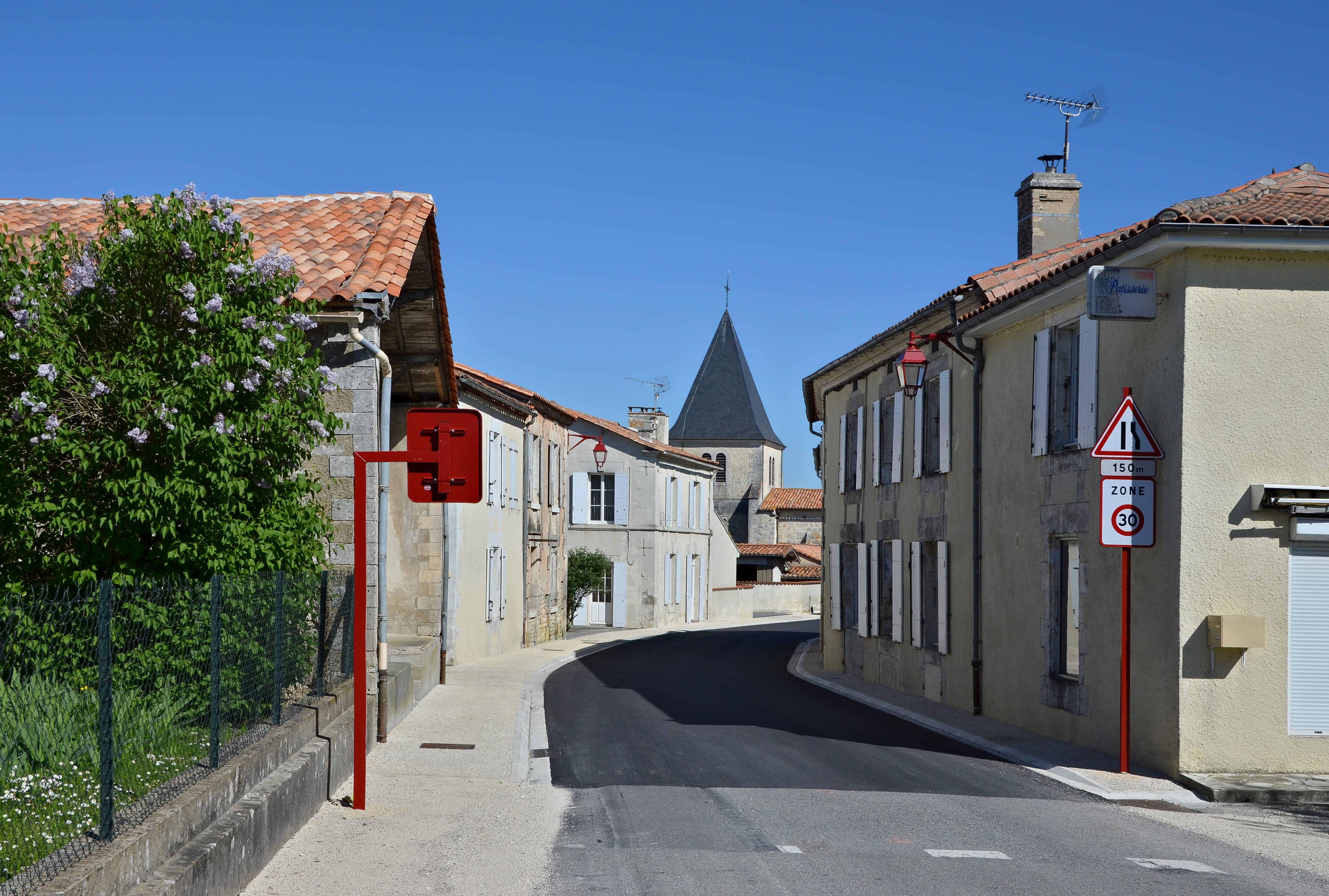 Village main street (road n° D 10) and church tower, Bors-de-Montmoreau, Charente, France.